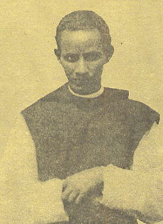 Father Felix Amlak, O.Cist., Servant of God. Beatification Process is underway. He brough Cistercians to Ethiopia from Italy.